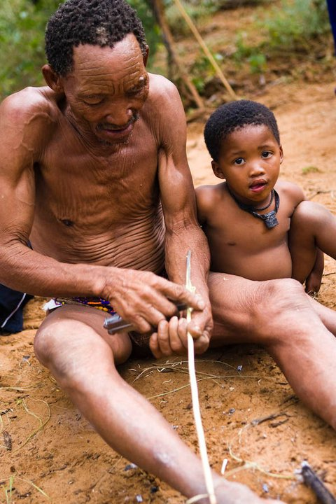 San tribesman and grandfather showing a family member the art of arrow-making This is an image of "African people at work" from Namibia